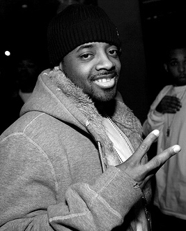 Jermaine Dupri in April 2005.